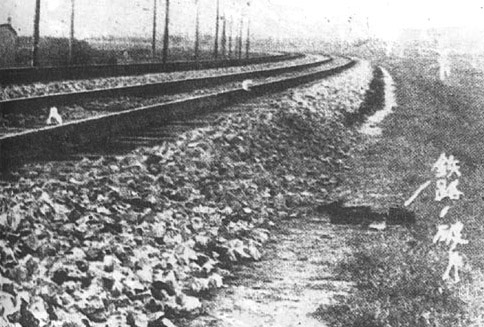 Railway sabotage site, near Mukden, northeastern China, 18 Sep 1931, photo 1 of 2，